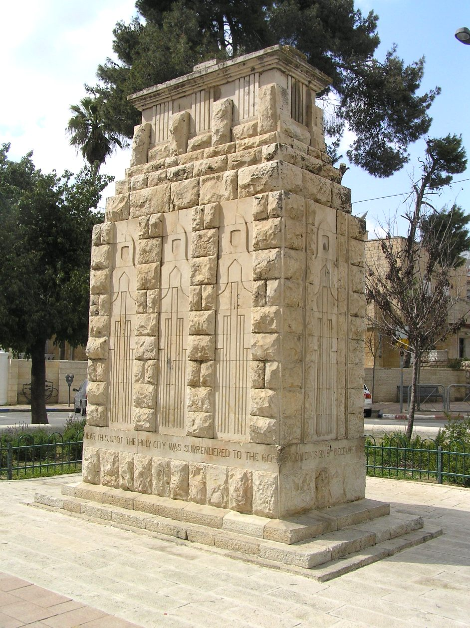 Allenby Square in Jerusalem - a memorial for Edmund Henry Hynman Allenby, the British conquer of Jerusalem in World War I